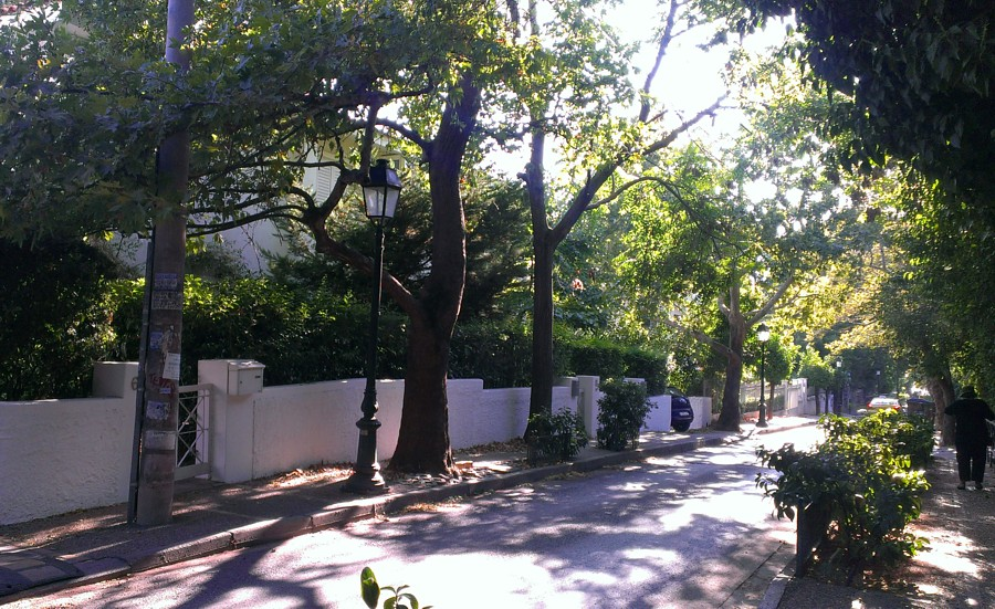 όθωνος